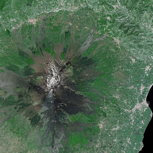 Etna by SPOT Satellite